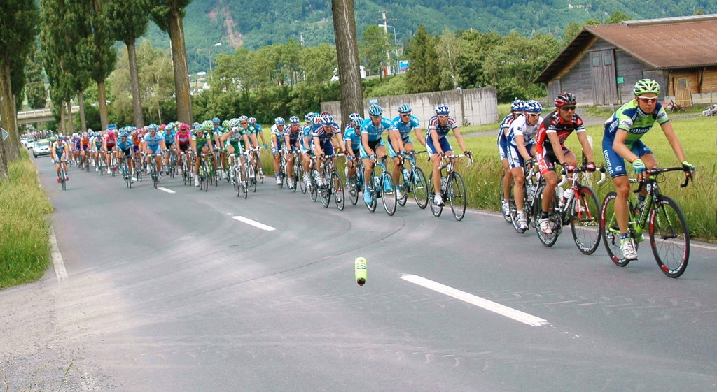 The cycling peloton during the Tour de Suisse 2007